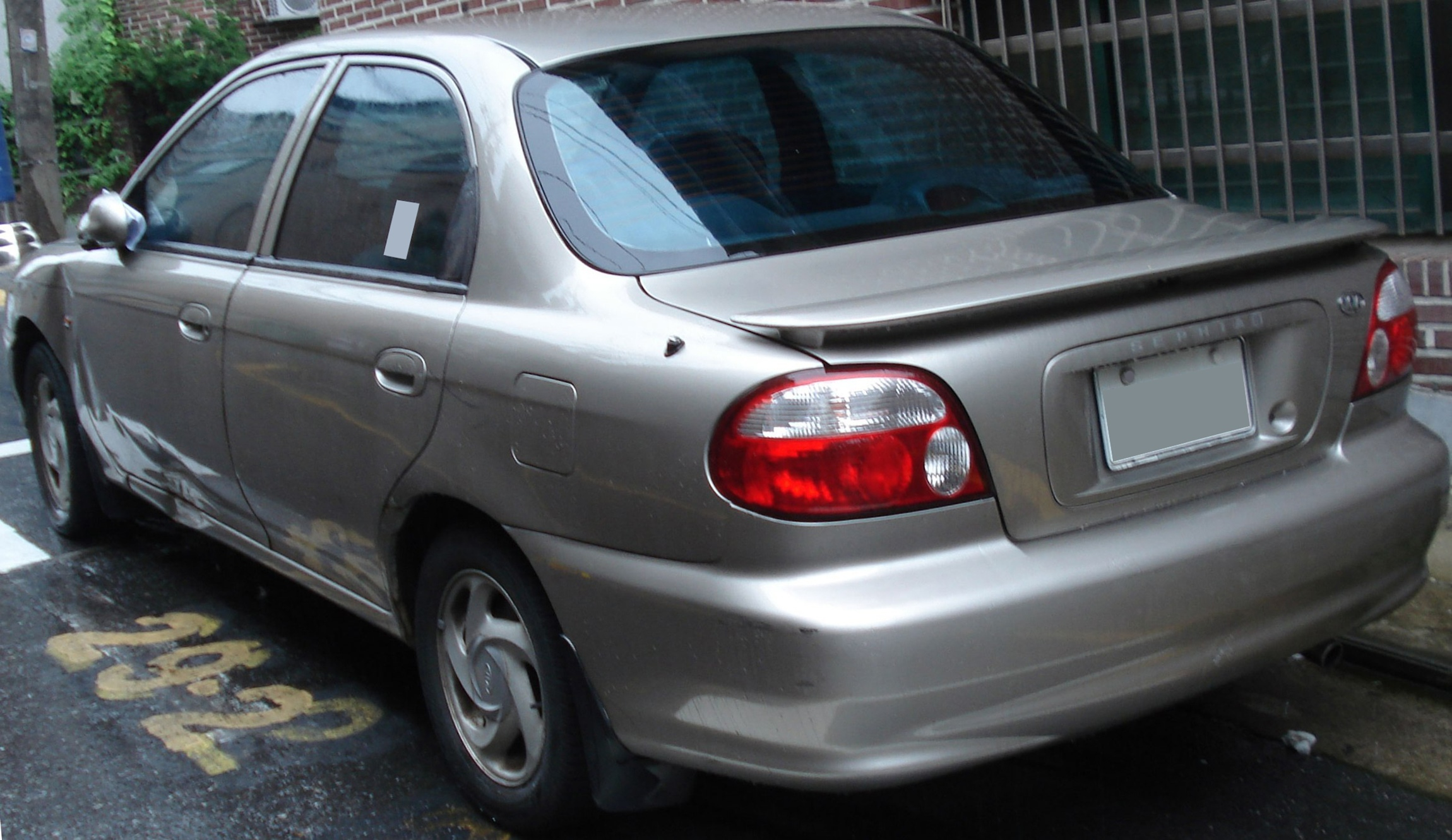 Kia Sephia Ⅱ